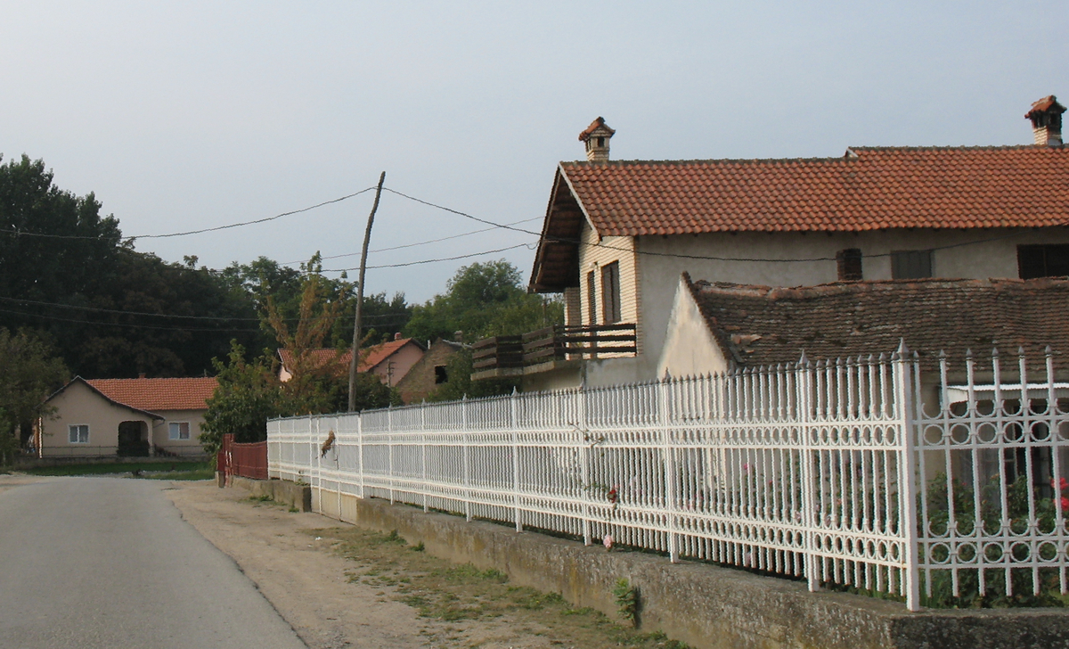 Kusiće in Veliko Gradište municipality, Serbia.